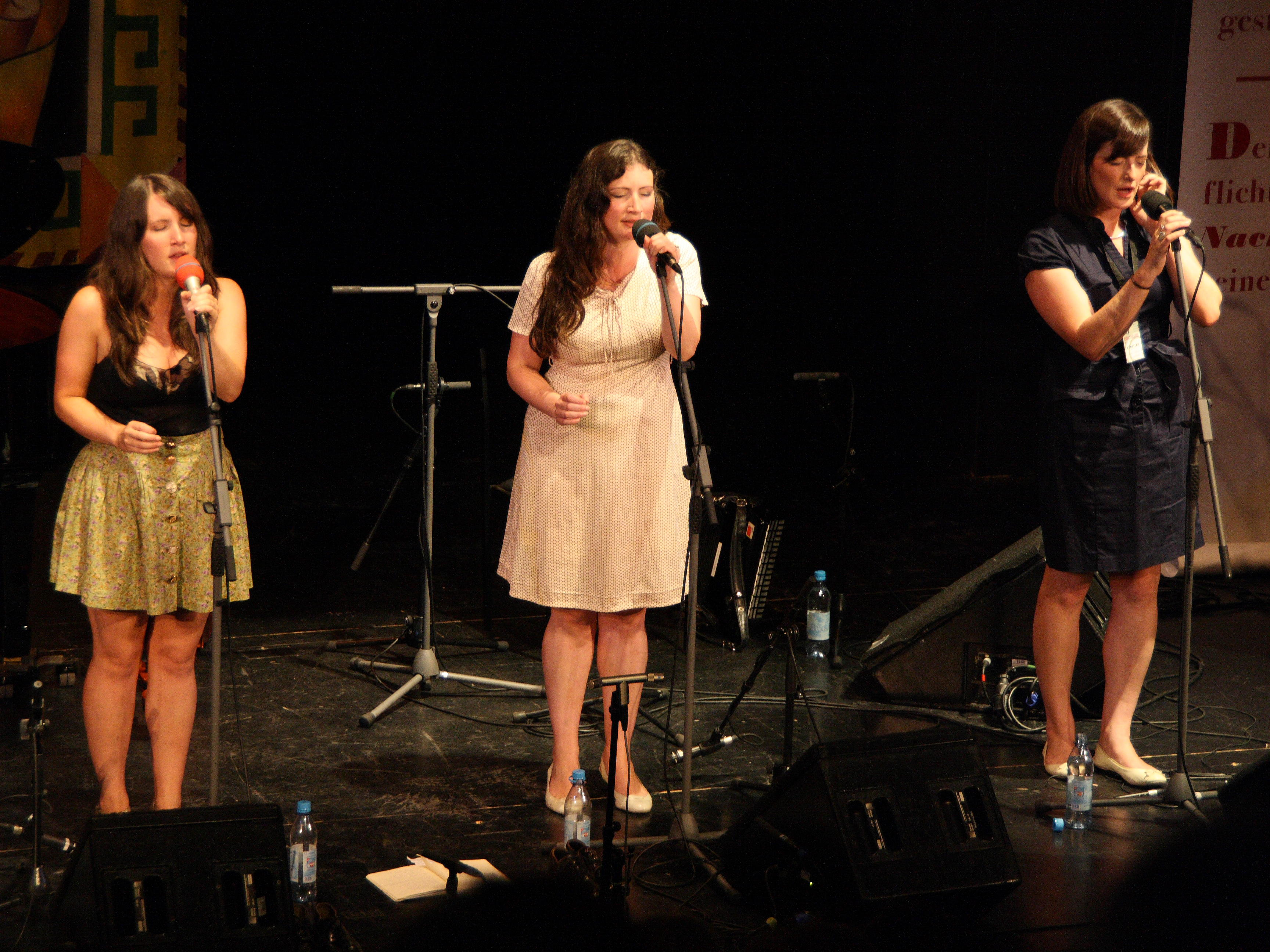 Becky and Rachel Unthank with Niopha Keegan at TFF-Festival, Rudolstadt, Germany